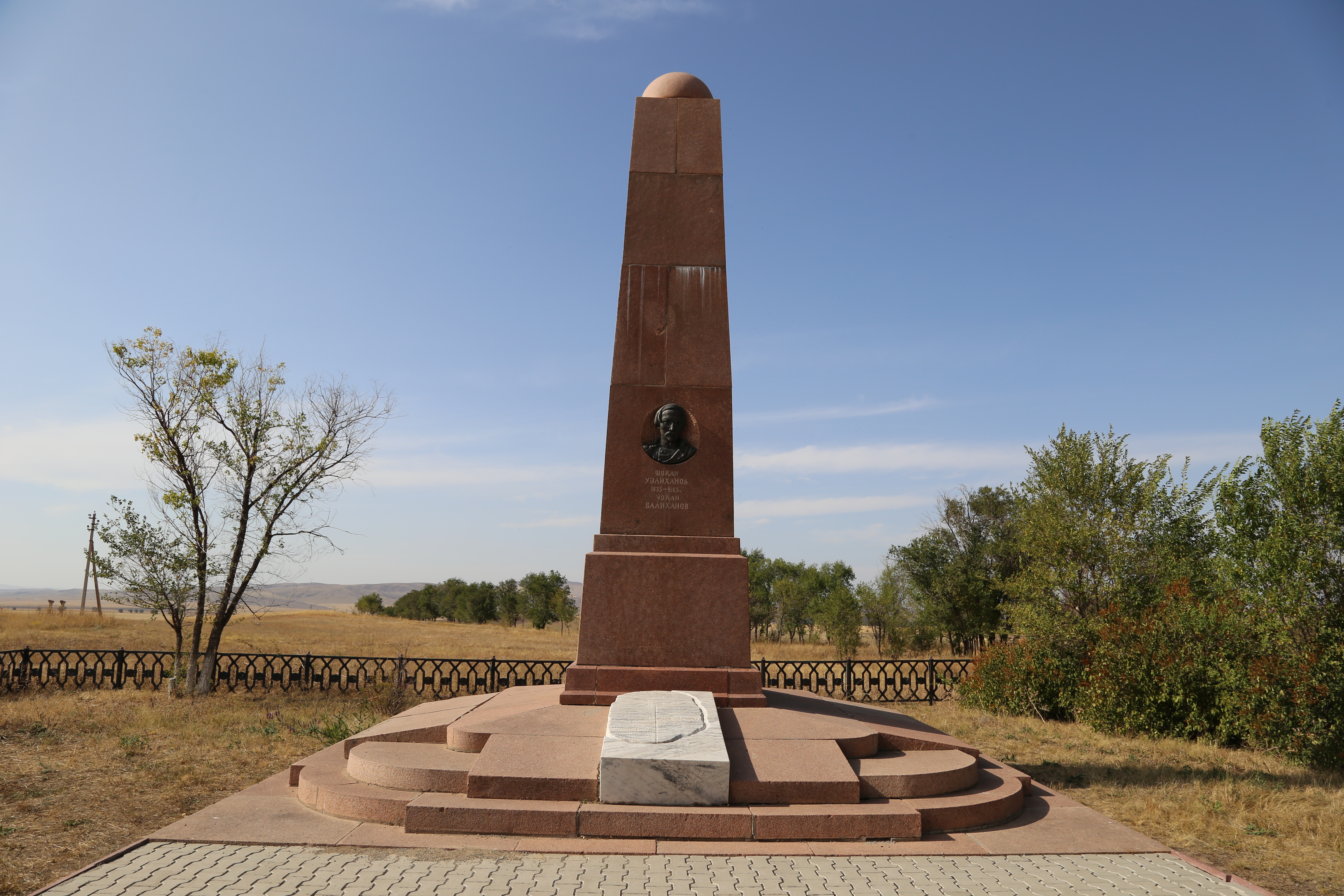 Shokan Ualikhanov Grave